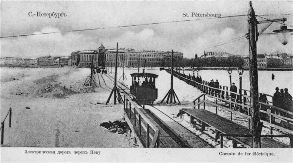 Senatsky line.